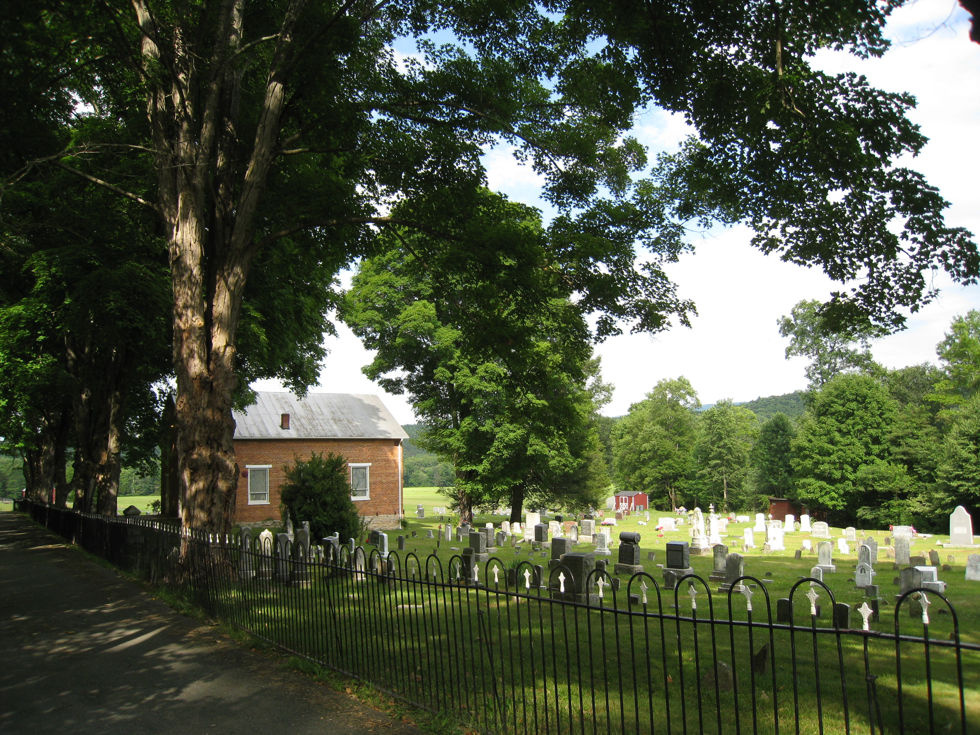 Old Hebron Lutheran Church along West Virginia Route 259 in Intermont, West Virginia, United States.